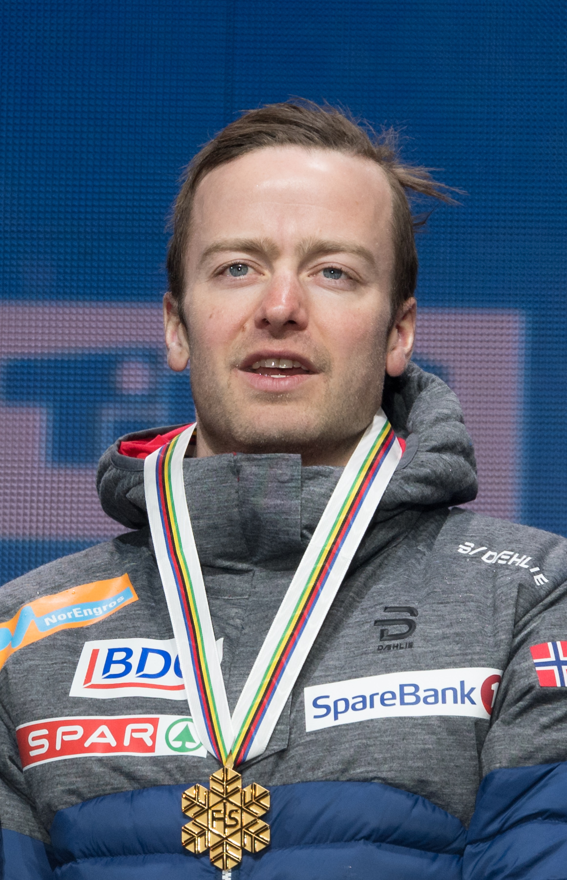 FIS Nordic World Ski Championships Seefeld 2019 - Medal Ceremony at the Medal Plaza. Picture shows Sjur Røthe (NOR).